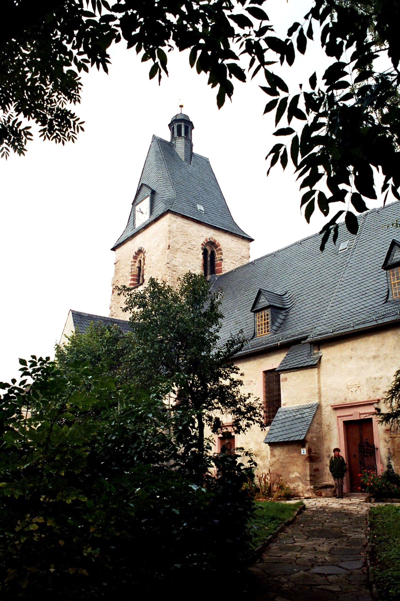 Riestedt (Sangerhausen), the Saint Wigbert Church This is a photograph of an architectural monument. 80284